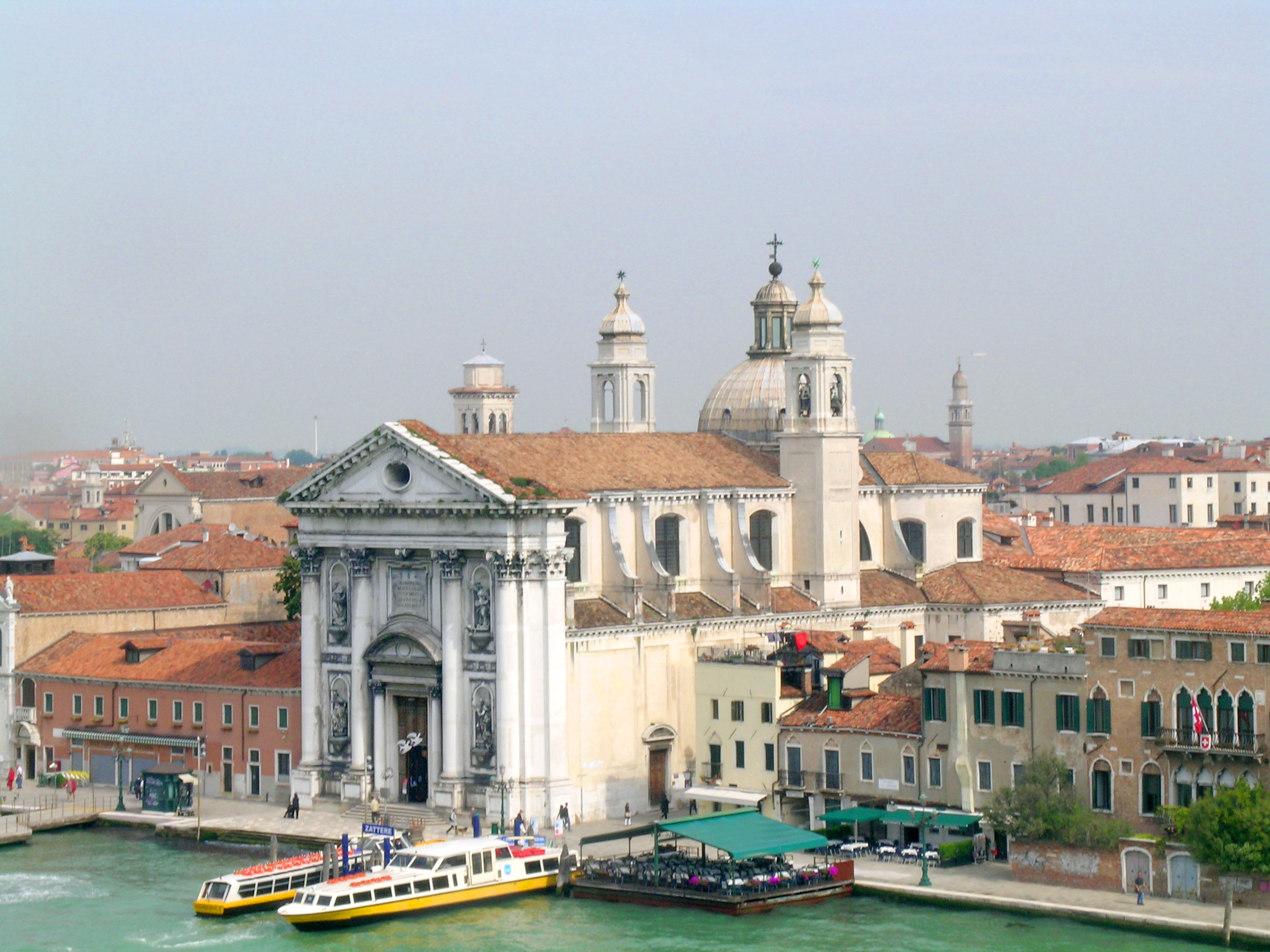 Church of Sta Maria del Rosario, commonly known as I Gesuati, on the Giudecca Canal in Venice